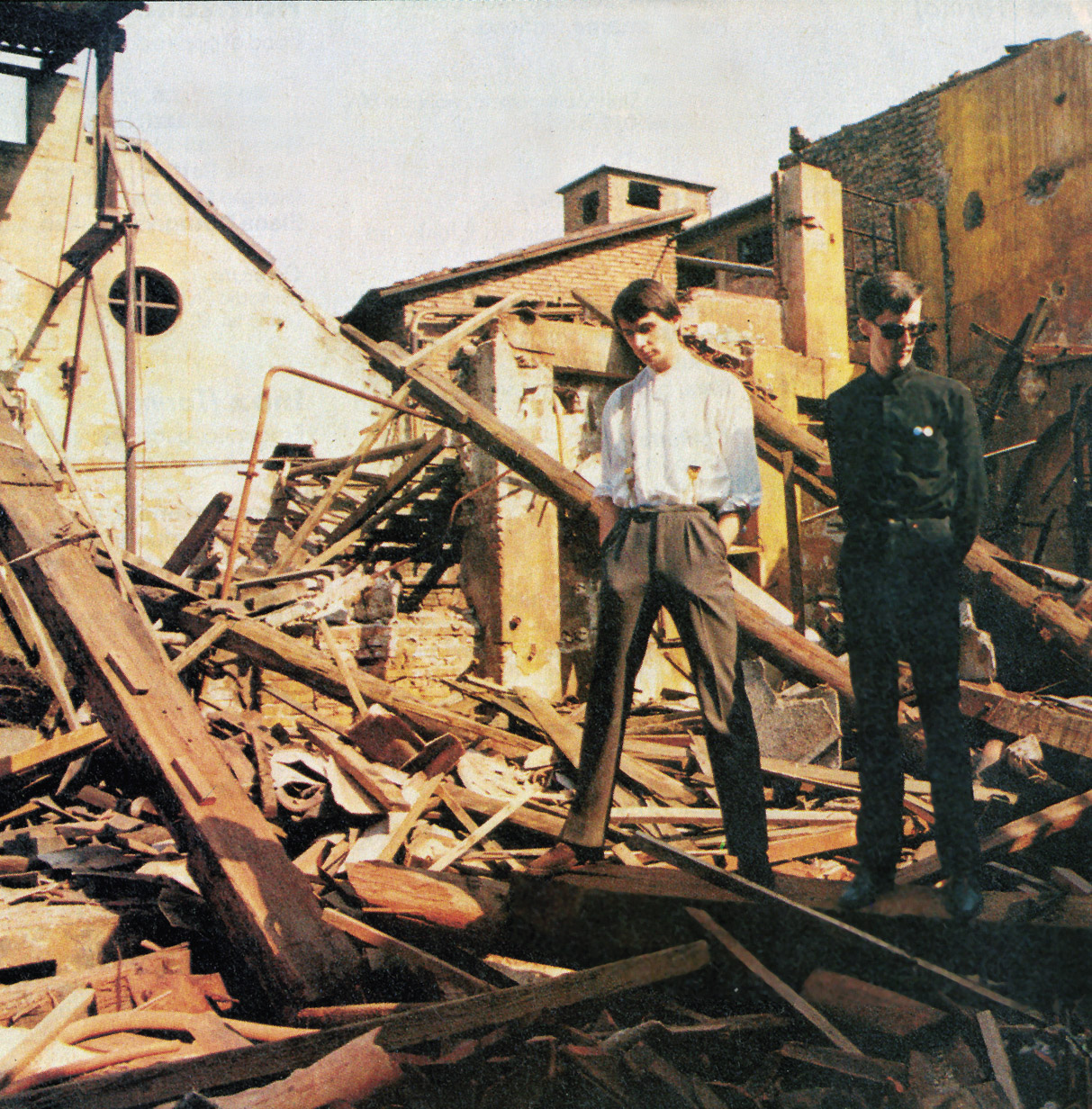 Monuments, portrait, 1981